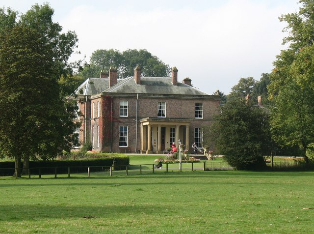 Solberge Hall Hotel The hotel was built in 1824 for John Hutton and was a country house until 1948 when it became the North Riding Police College. After some 30 years as a college it was converted into a hotel.